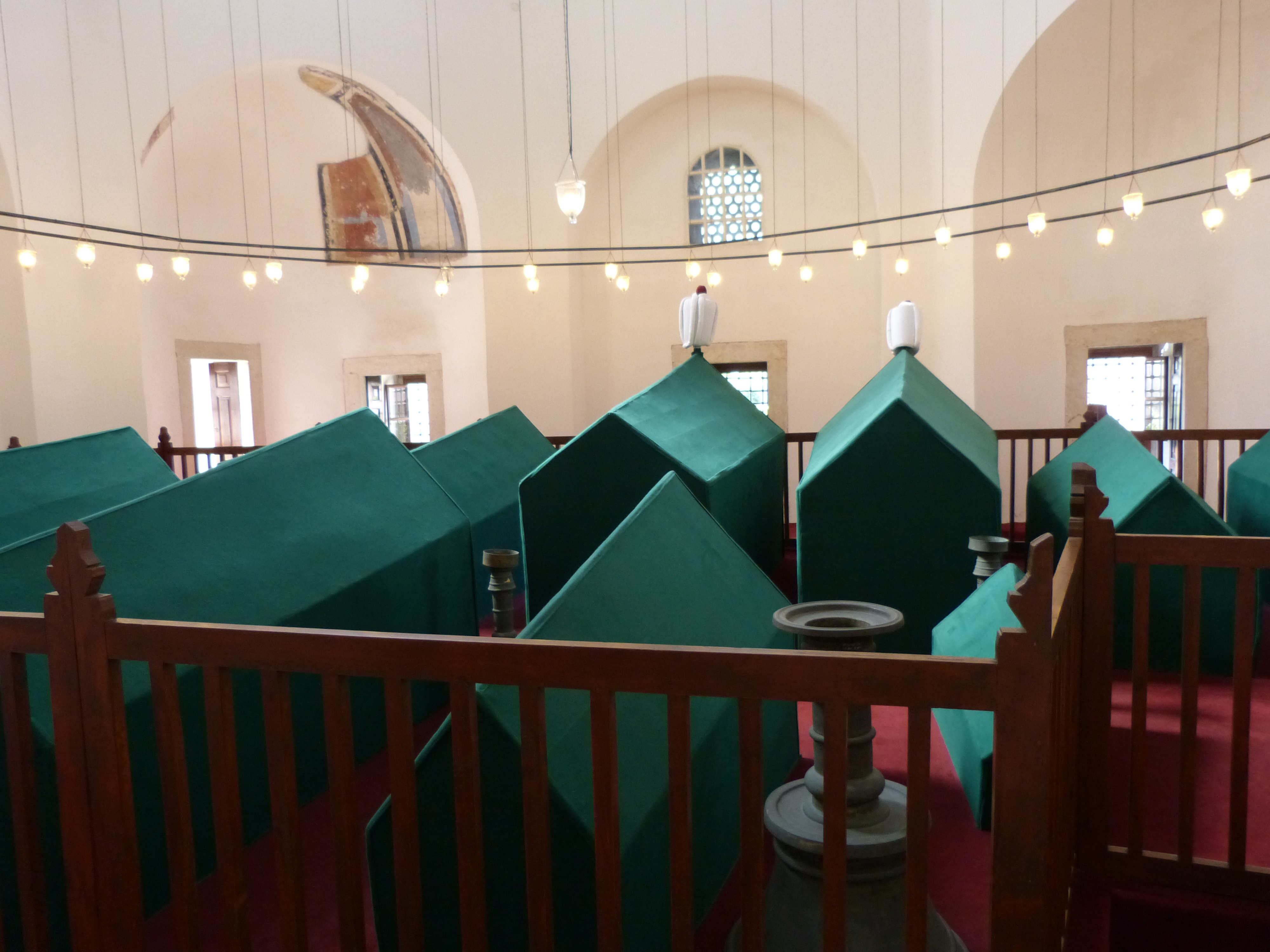 Türbe (Tomb) of Sultan Mustafa I and Ibrahim I